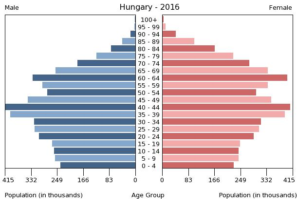 The population pyramid of Hungary illustrates the age and sex structure of population and may provide insights about political and social stability, as well as economic development. The population is distributed along the horizontal axis, with males shown on the left and females on the right. The male and female populations are broken down into 5-year age groups represented as horizontal bars along the vertical axis, with the youngest age groups at the bottom and the oldest at the top. The shape of the population pyramid gradually evolves over time based on fertility, mortality, and international migration trends.